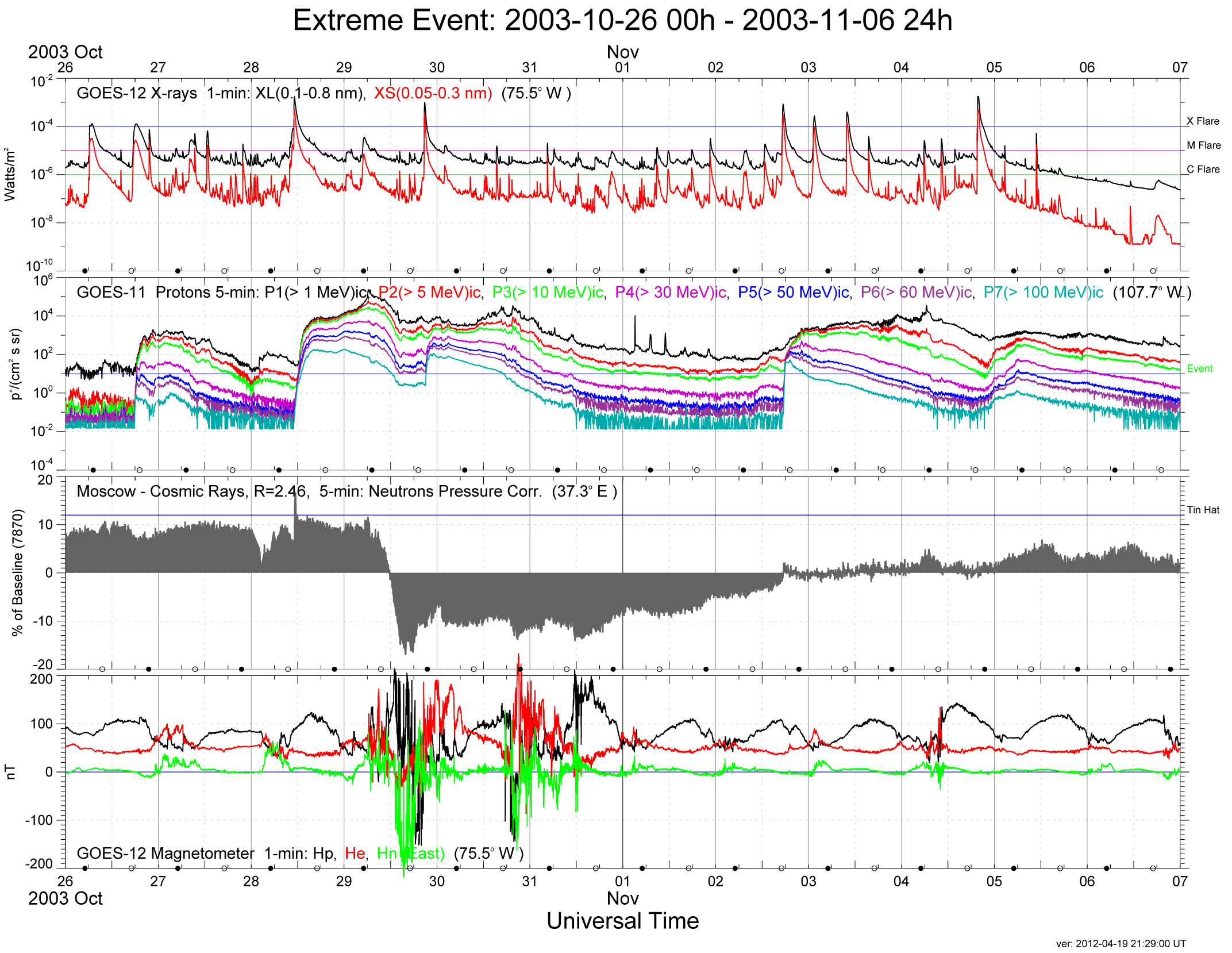 Extreme space weather event October 2003.